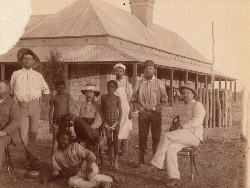 Group of officials and staff of the Telegraph Station at Charlotte Waters, NT, close to the border with SA - once nicknamed Bleak House, now a ruin. According to NT Library, station master P.M. Byrne on right. (citation) Charlotte Waters, Northern Territory